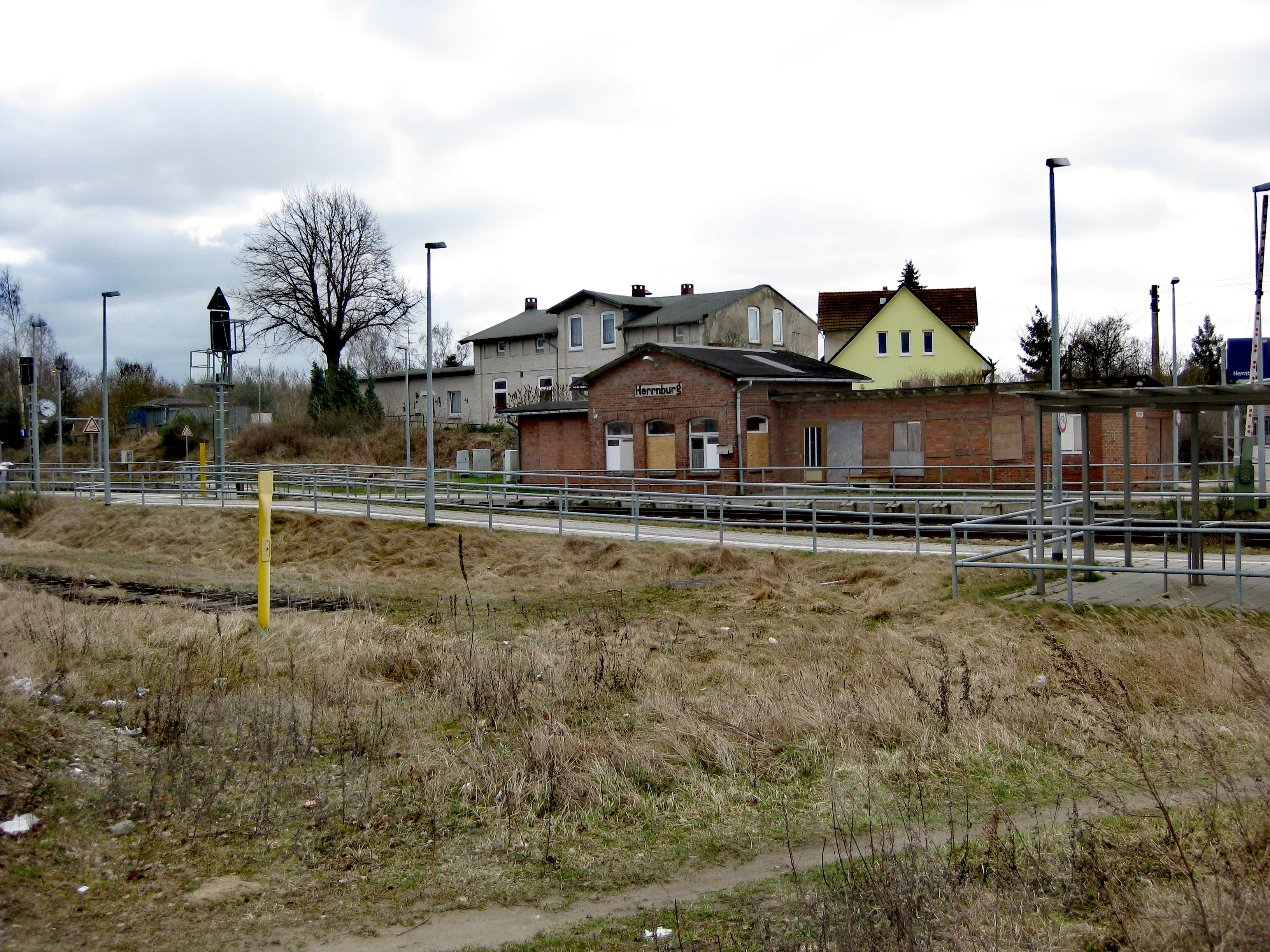 Train station in Herrenburg, municipality of Lüdersdorf, Nordwestmecklenburg